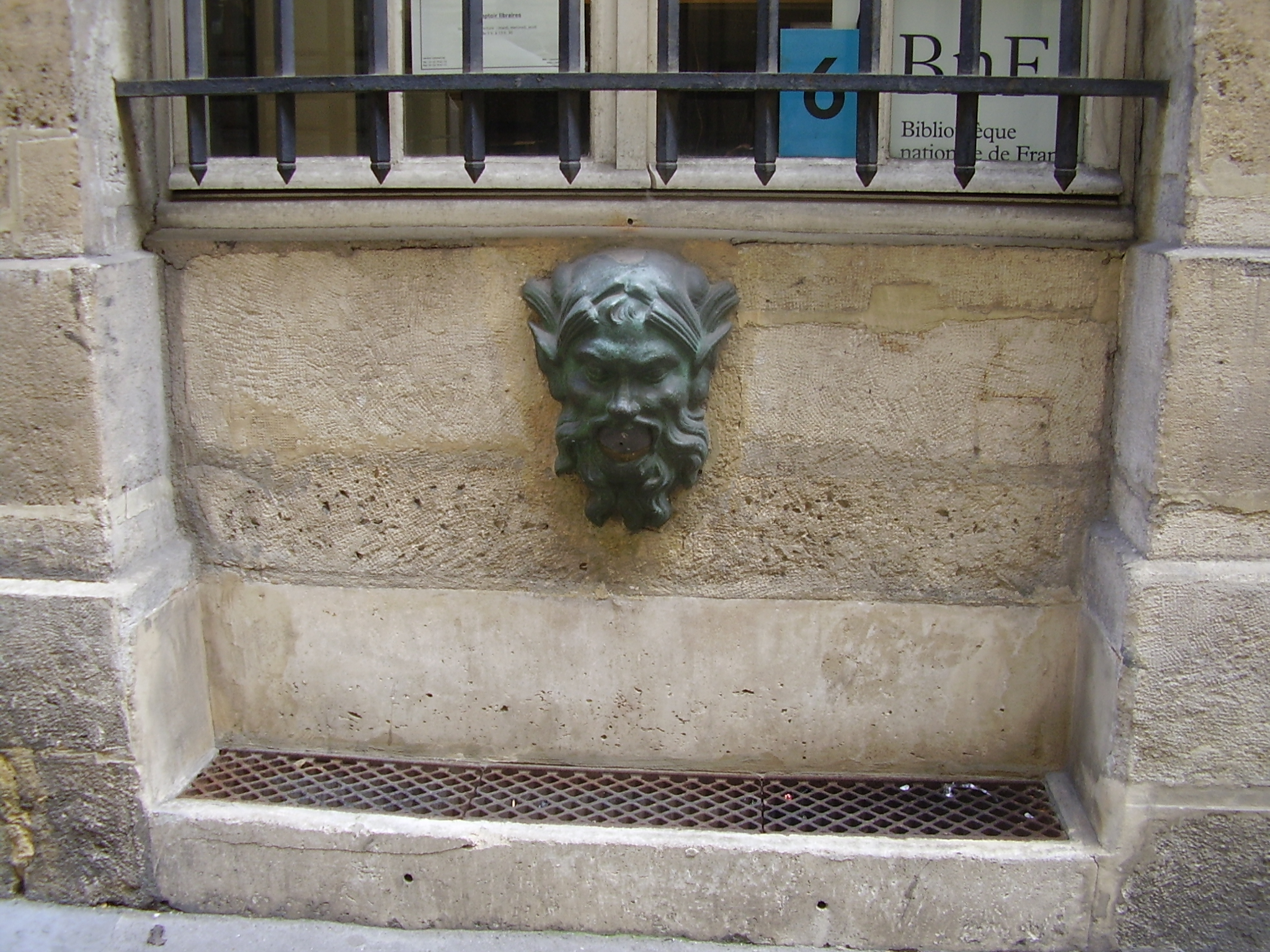 Mascaron of the fountain 6 rue Colbert, Paris (beginning of the XVIIIth c.)